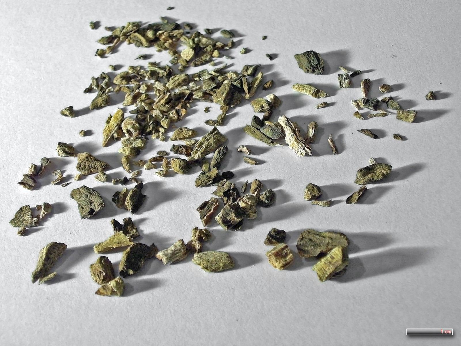 dried Rheum palmatum, known as Turkey rhubarb, Chinese rhubarb, ornamental rhubarb, and East Indian rhubarb Root